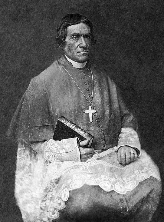 Irenej Friderik Baraga, Servant of God (June 29, 1797 – January 19, 1868) was a Slovene American Roman Catholic missionary, bishop, and grammarian.Original description: Bishop Frederic Baraga, three-quarter length portrait, facing three-quarters to right, seated, in clerical robes, holding his Dictionary of the Otchipwe Language